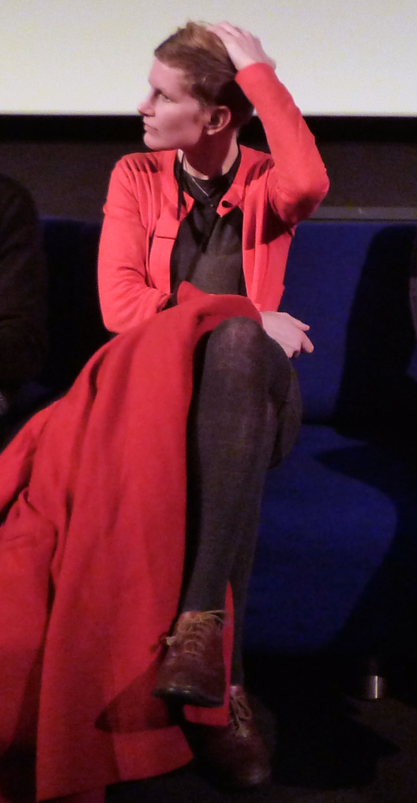 French artist Laure Prouvost, photographed in 2010.